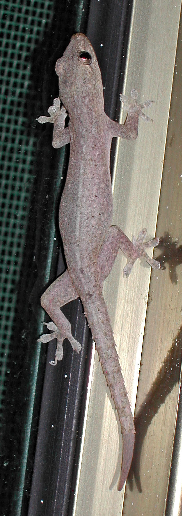 Probably a House Gecko, found crawling on a window inside my house in Taiwan. Similar-looking geckos are routinely encountered in the building and the surrounding areas.